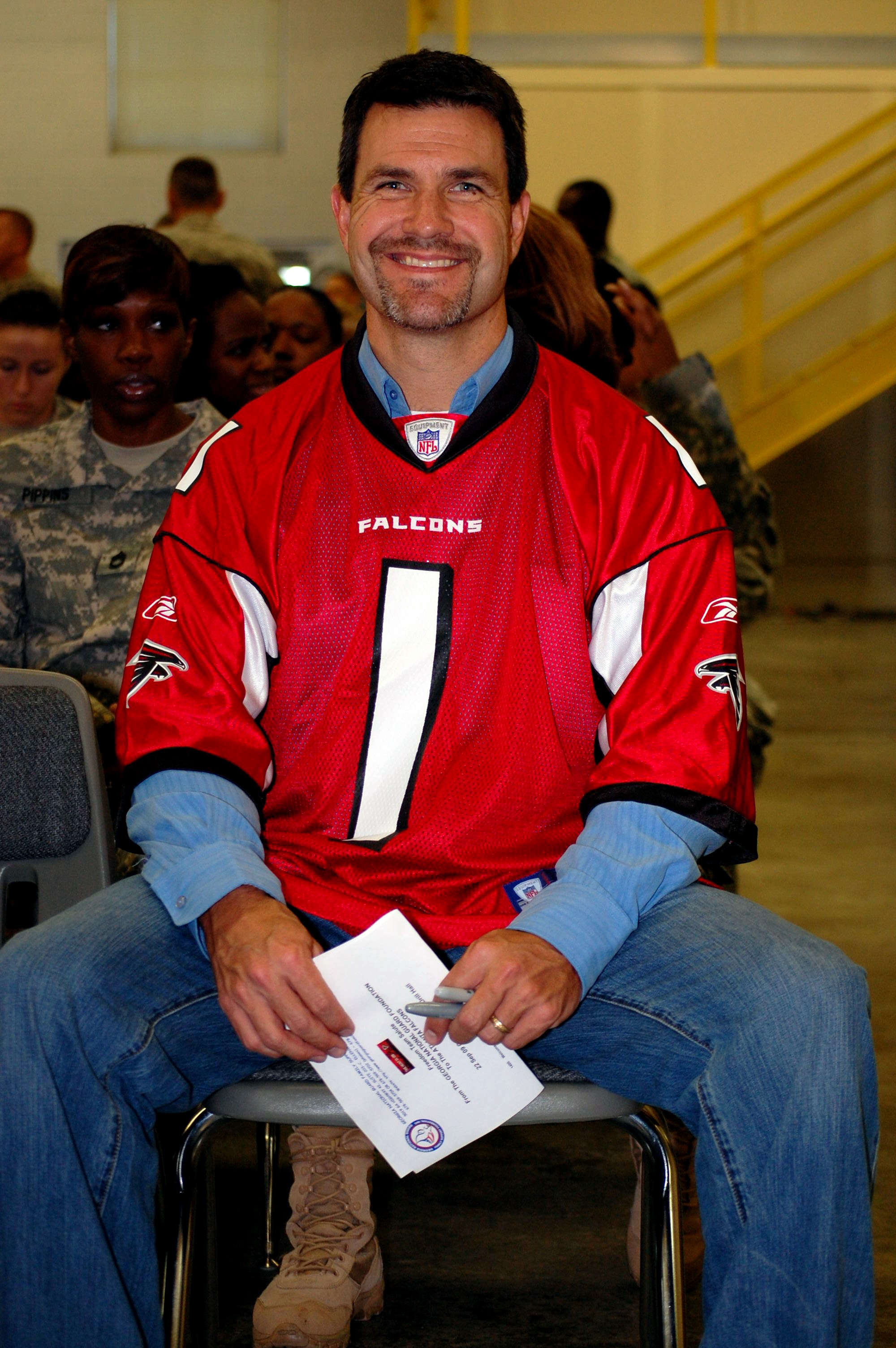 Atlanta Falcons Pro Bowl kicker Jason Elam was a guest of honor at the Freedom Team Salute presentation held at the Oglethorpe Armory Sept. 22. Elam and other members of the Falcons organization received certificates of appreciation from the Guard for their support of the Georgia National Guard Family Support Foundation.